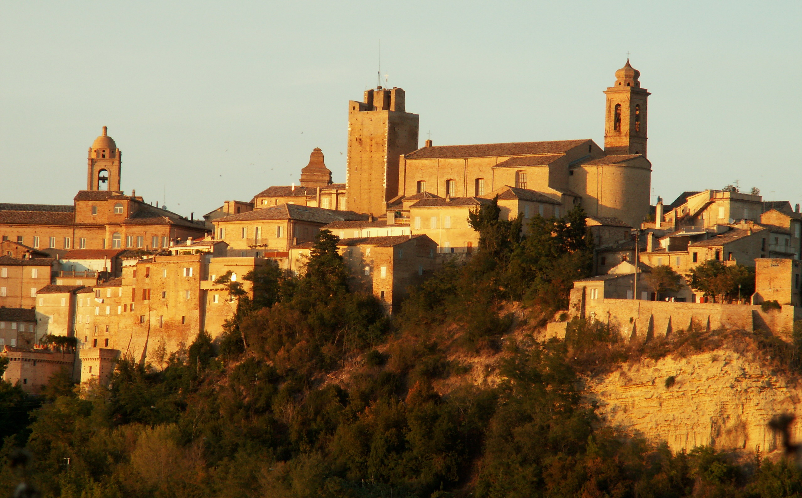 The south side of the historical centre of Sant'Elpidio a Mare, Province of Fermo, Marche, Italy.